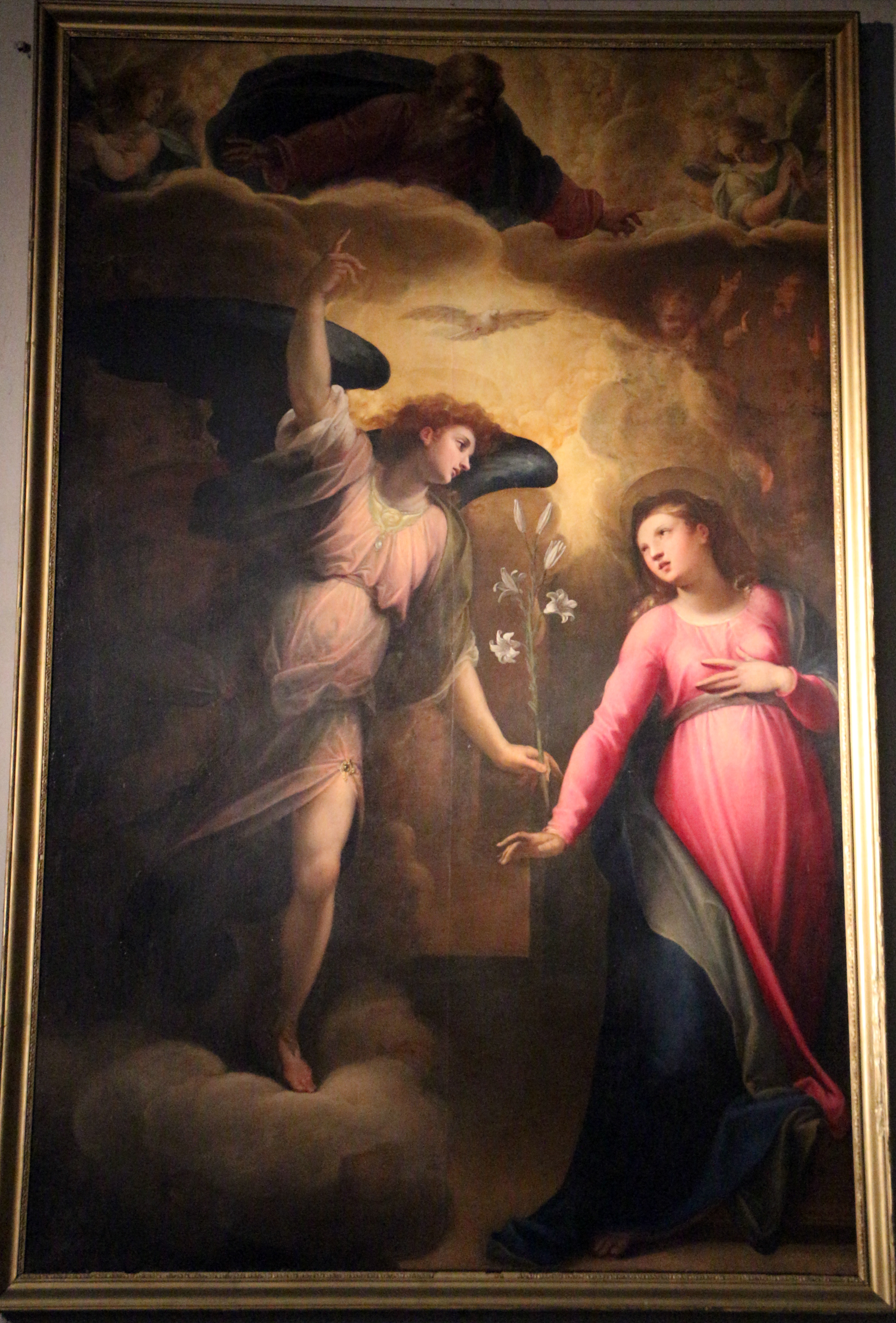 San Giovanni Battista (Pomarance)